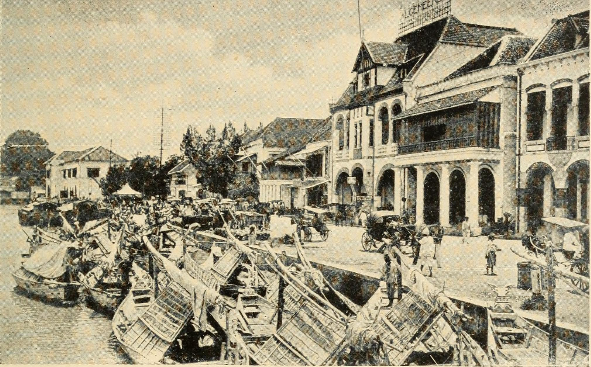 Title: Java, Sumatra and the other islands of the Dutch East Indies Year: 1914 (1910s) Authors: Cabaton, Antoine, b. 1863 Miall, Bernard, 1876- Subjects: Publisher: New York, C. Scribner's sons Text Appearing Before Image: terminal cupola a pinch of the reveredashes of the Buddha. It is built without the aid of limeor mortar, the stones being jointed by means of tenonsand mortices and dovetails which bind them solidlytogether. The material is volcanic lava, whose greyishtint enhances the imposing and melancholy effect of thisenormous and complex structure—a melancholy hardlyenlivened by the most fantastic virtuosity of the chisel.It stands facing Merapi, in a wide plain of slendercoco-palms, the horizon closed by a scattered rangeof extinct volcanoes. Only the ruins of Angkor Wat, in French Indo-China,can rival Boro Budur in grandeur. Hindu by inspira-tion, like the latter, they surpass it in point of size, andare perhaps superior in grace, justness of proportion, anddelicacy of ornamentation. The Dutch Government, at the repeated instance of^uch scholars as the late Dr. J. L. A. Brandes, and ofthe archaeologists, amongst whom we must mentionDr. 1. Groneman, the founder of the Archaeological II c^^M. Text Appearing After Image: NATIVE BOATS, WILLEMSKERKE, SURABAJA.